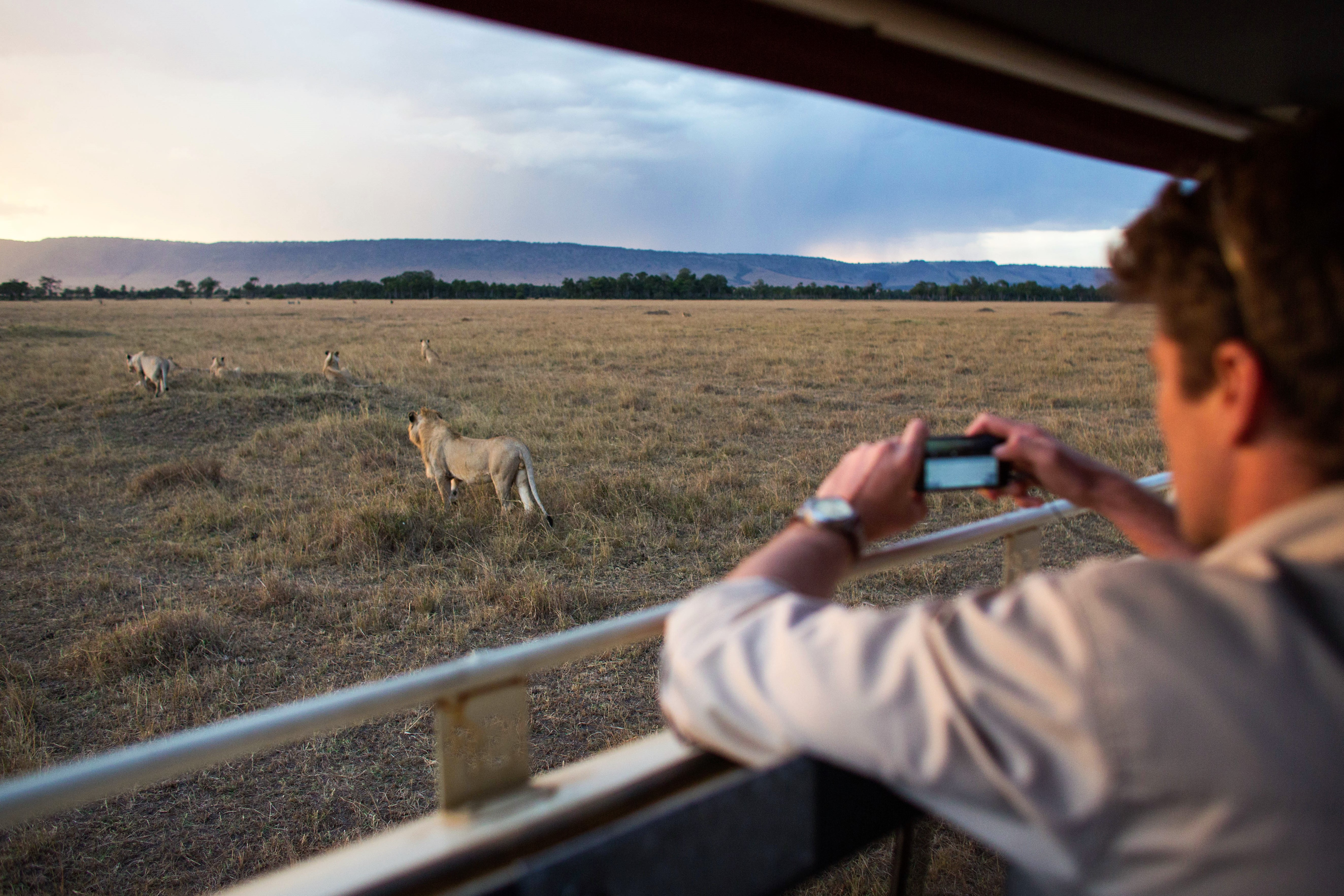 KENYA, Masai Mara: In a photograph taken by Make It Kenya 29 September 2015, Andre Van Kets, Co-founder of films a live stream on the Twitter app periscope via a smartphone, of a group of lions known as the Marsh Pride, made famous by wildlife film-makers Jonathan and Angela Scott in the BBC natural history serialisation Big Cat Diary, in Kenya's Masai Mara National Reserve. During the months of July through to October, one of nature's greatest events takes place in the Mara when hundreds of thousands of wildebeest, zebra and other ungulates migrate northwards from Tanzania's Serengeti in search of fresh pasture and grazing, before turning and heading south again in a journey that covers thousands of kilometres and is known as one of the seven natural wonders of the world, making it a major draw for wildlife enthusiasts and tourists from around the globe. MANDATORY CREDIT: MAKE IT KENYA PHOTO / STUART PRICE.